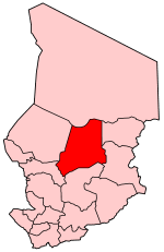 Map of Chad showing Batha region.